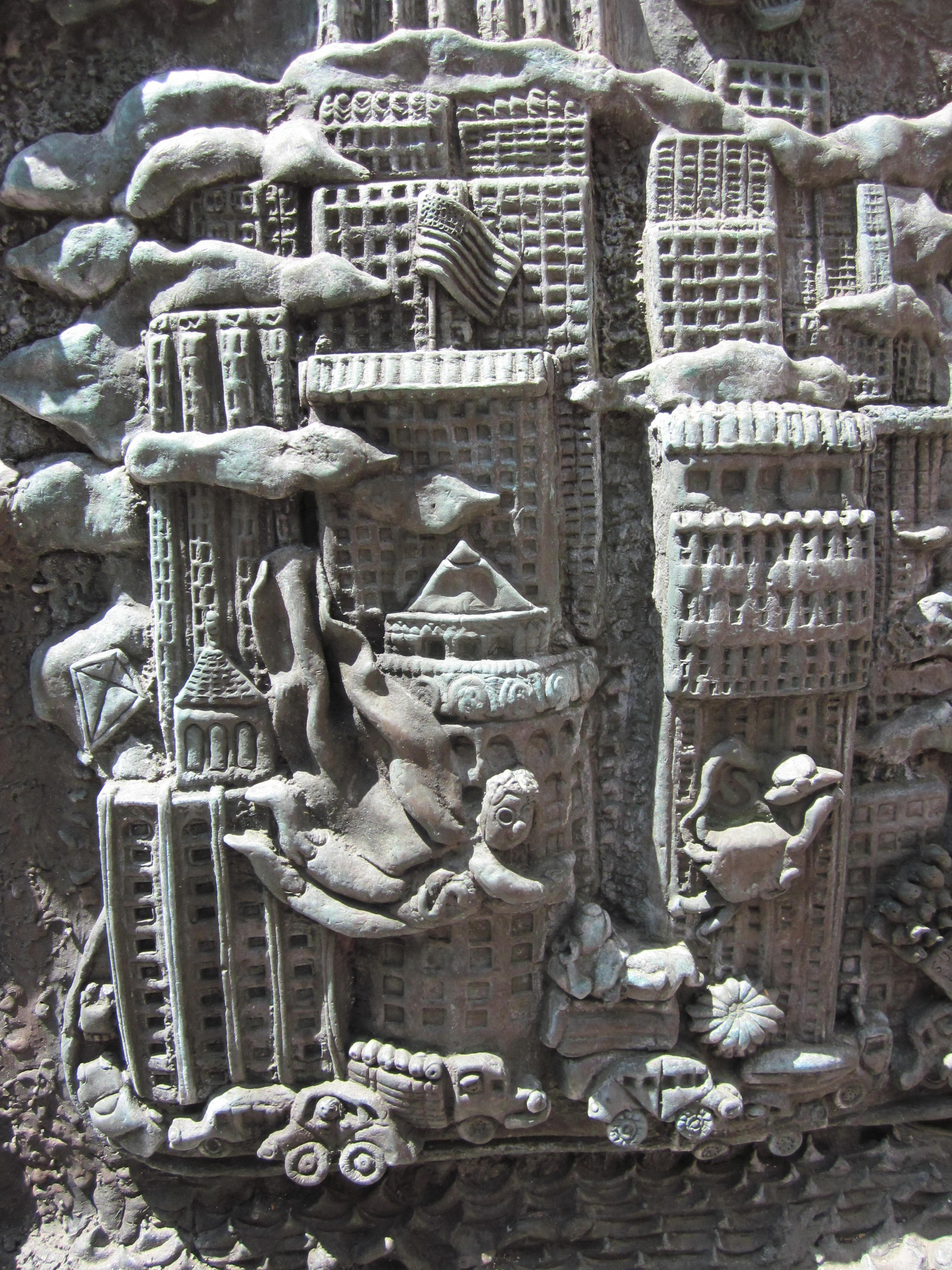 Detail of Ruth Asawa's San Francisco fountain in Union Square.